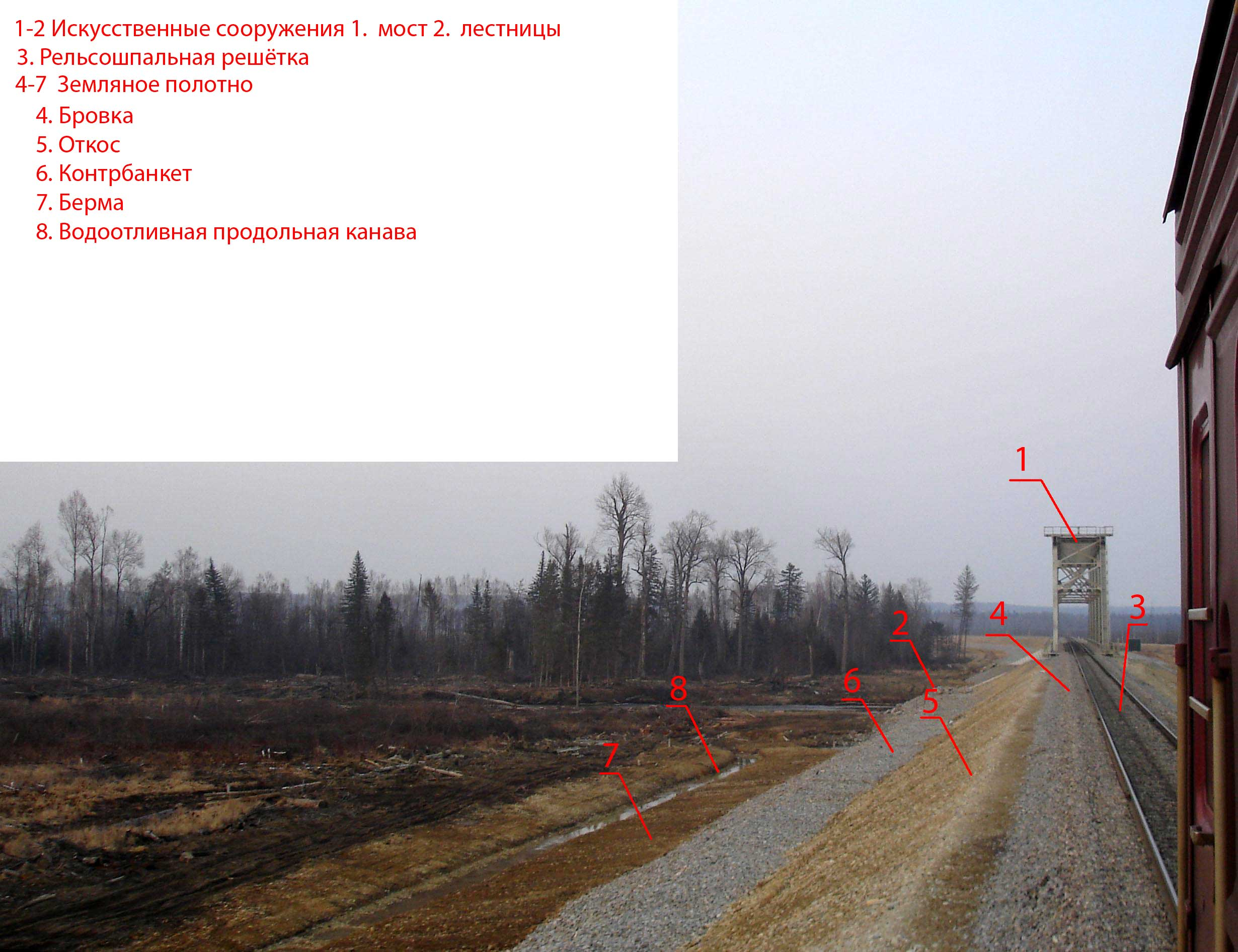 Railway schema